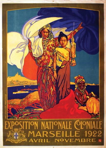 Poster Exposition coloniale Marseille 1922